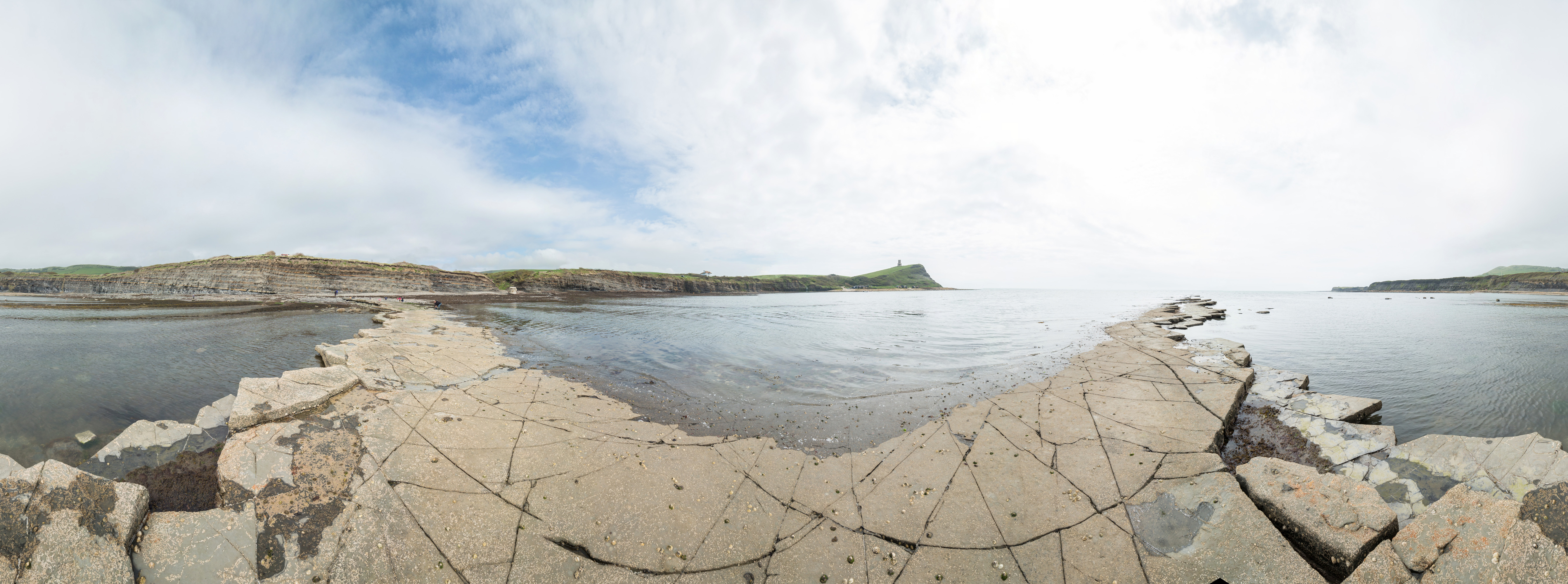 A 360 degree panoramic view of Kimmeridge Bay in Dorset, England, UK.